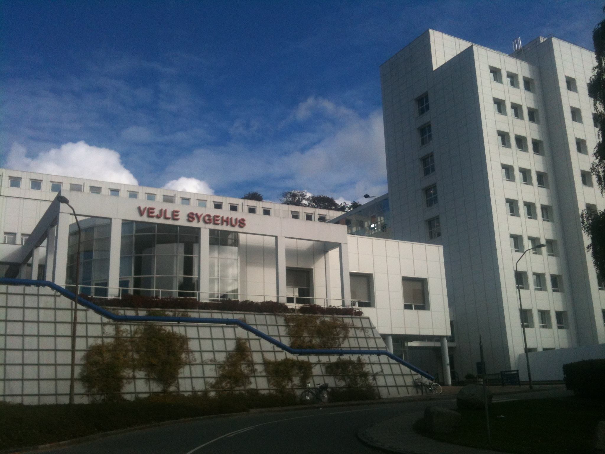 Vejle Sygehus (Hospital) - Vejle - DenmarkDansk: Vejle Sygehus - Vejle - Denmark